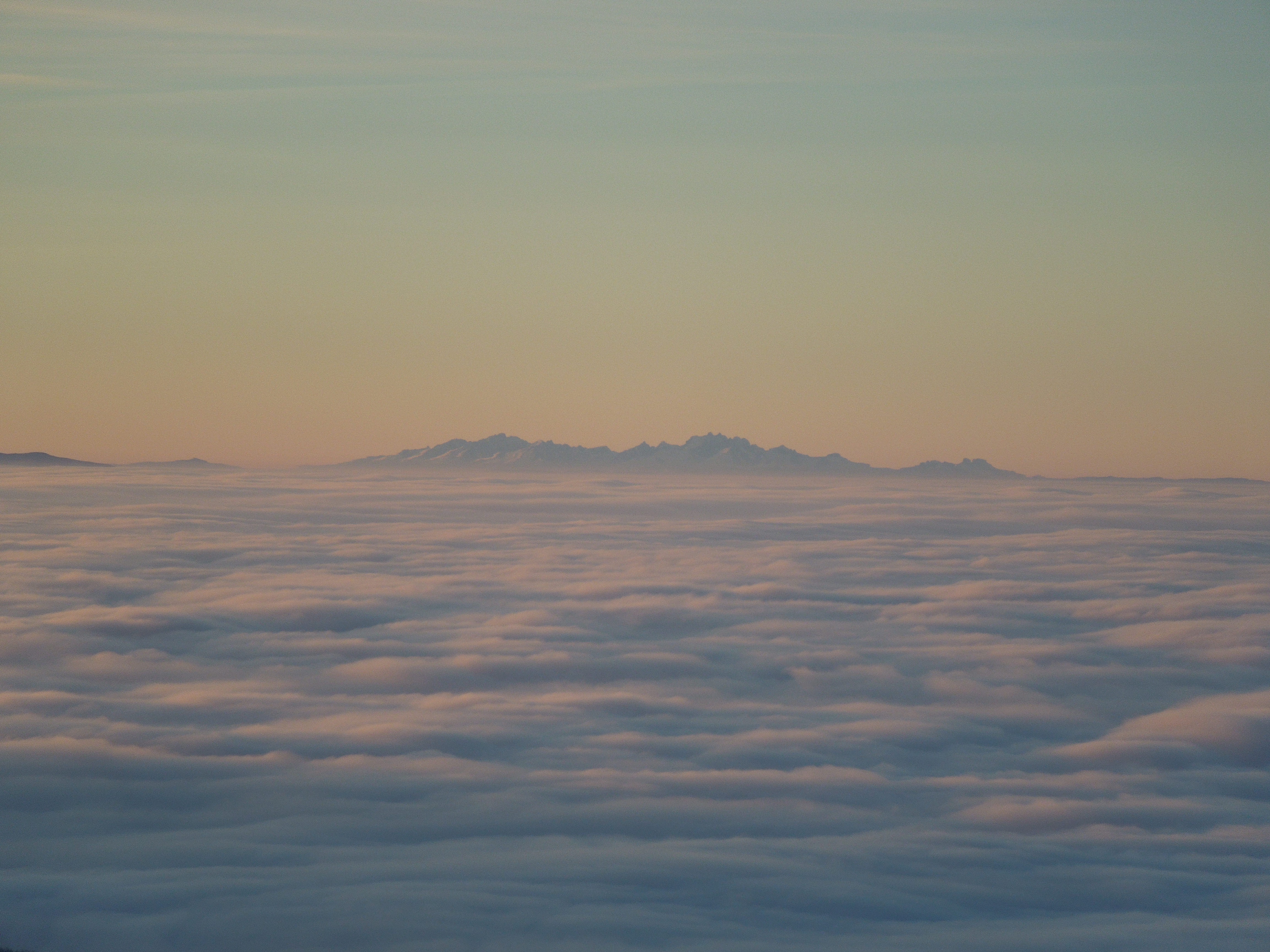 View of Vysoké Tatry from Sninský kameň during inversion, distance ca 140-160 km